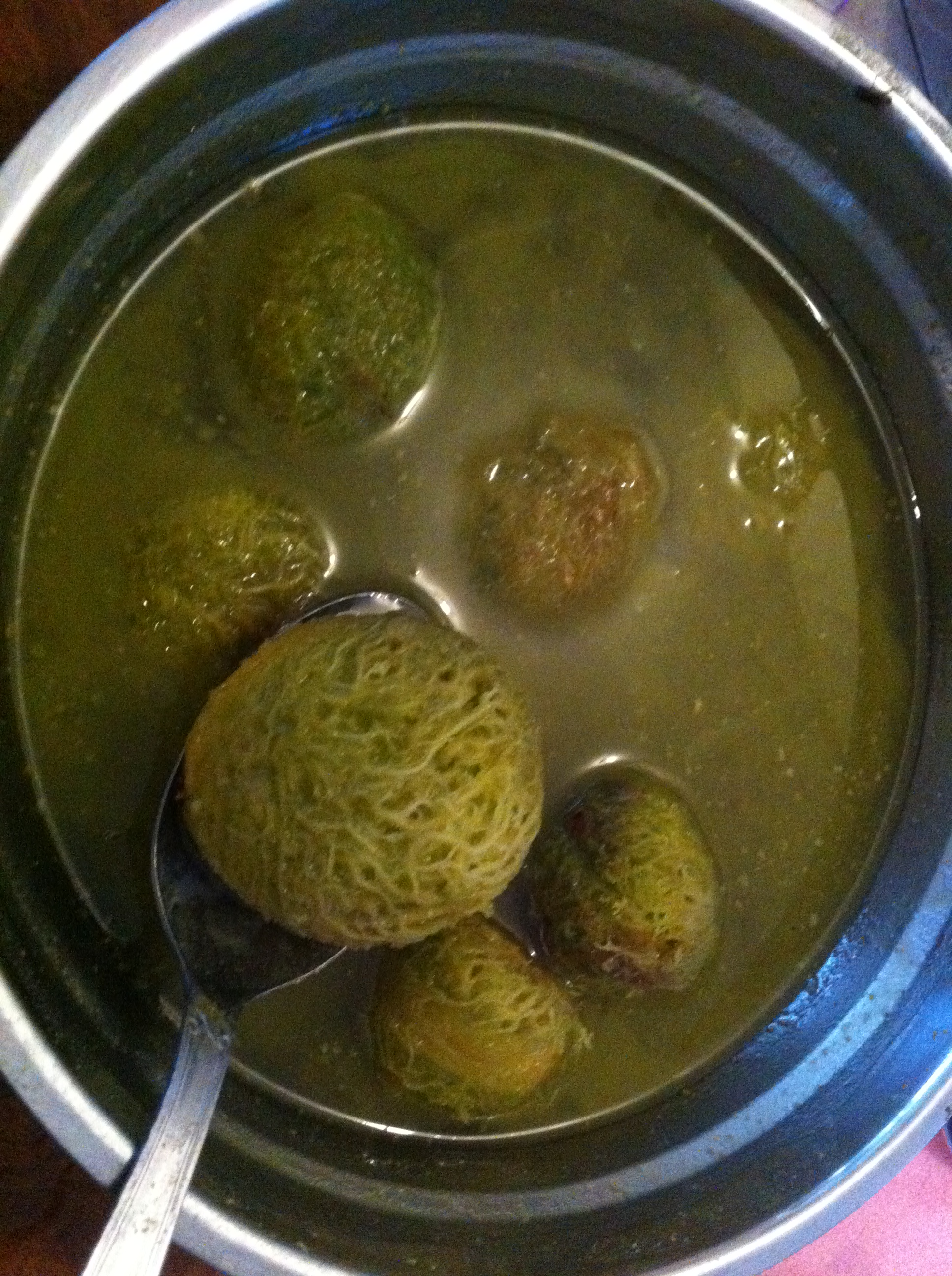 Ditakh, fruit of Detarium senegalense